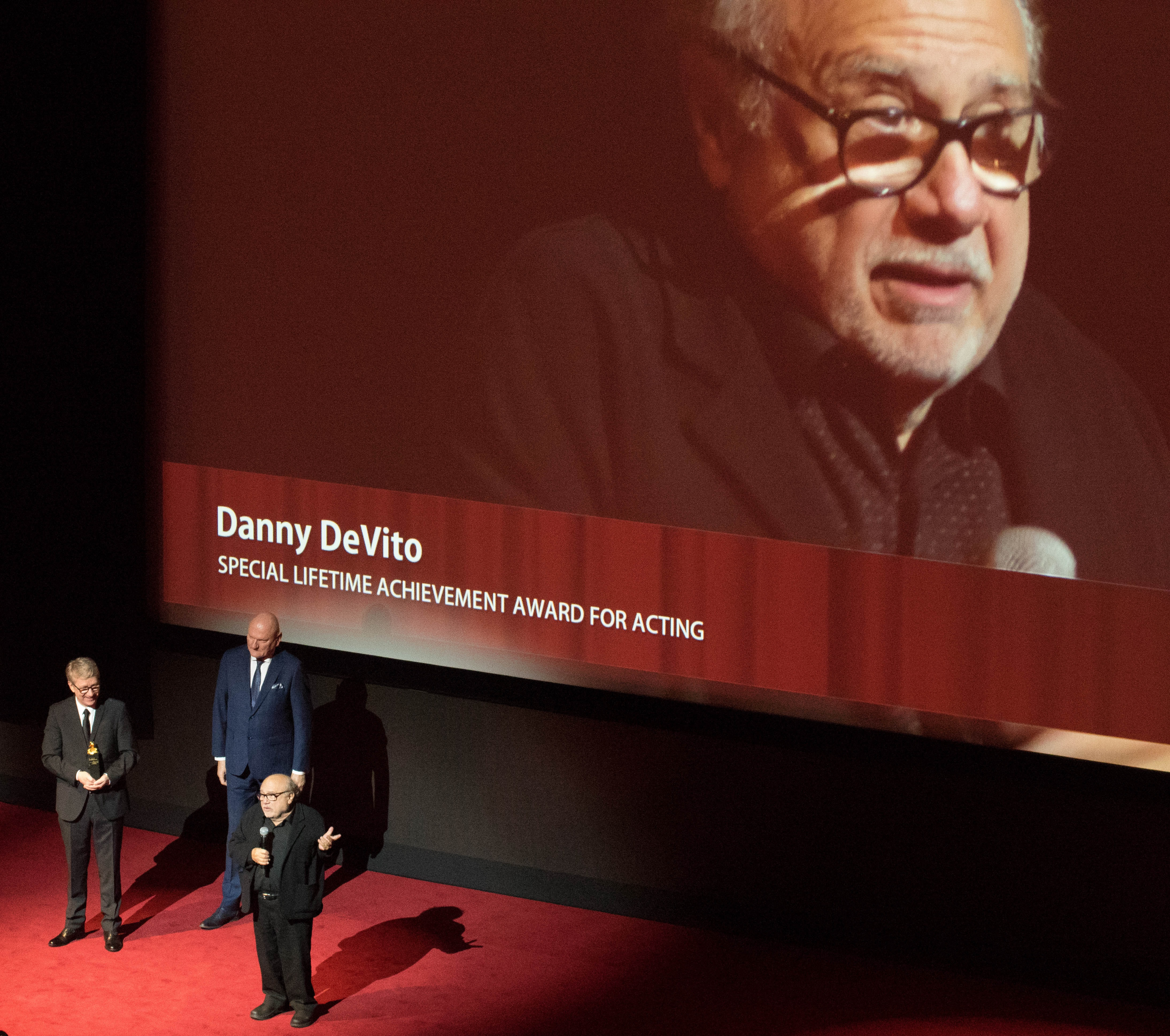 DannyDeVito-energa camerimage 2019 festiwal Toruń. Poland